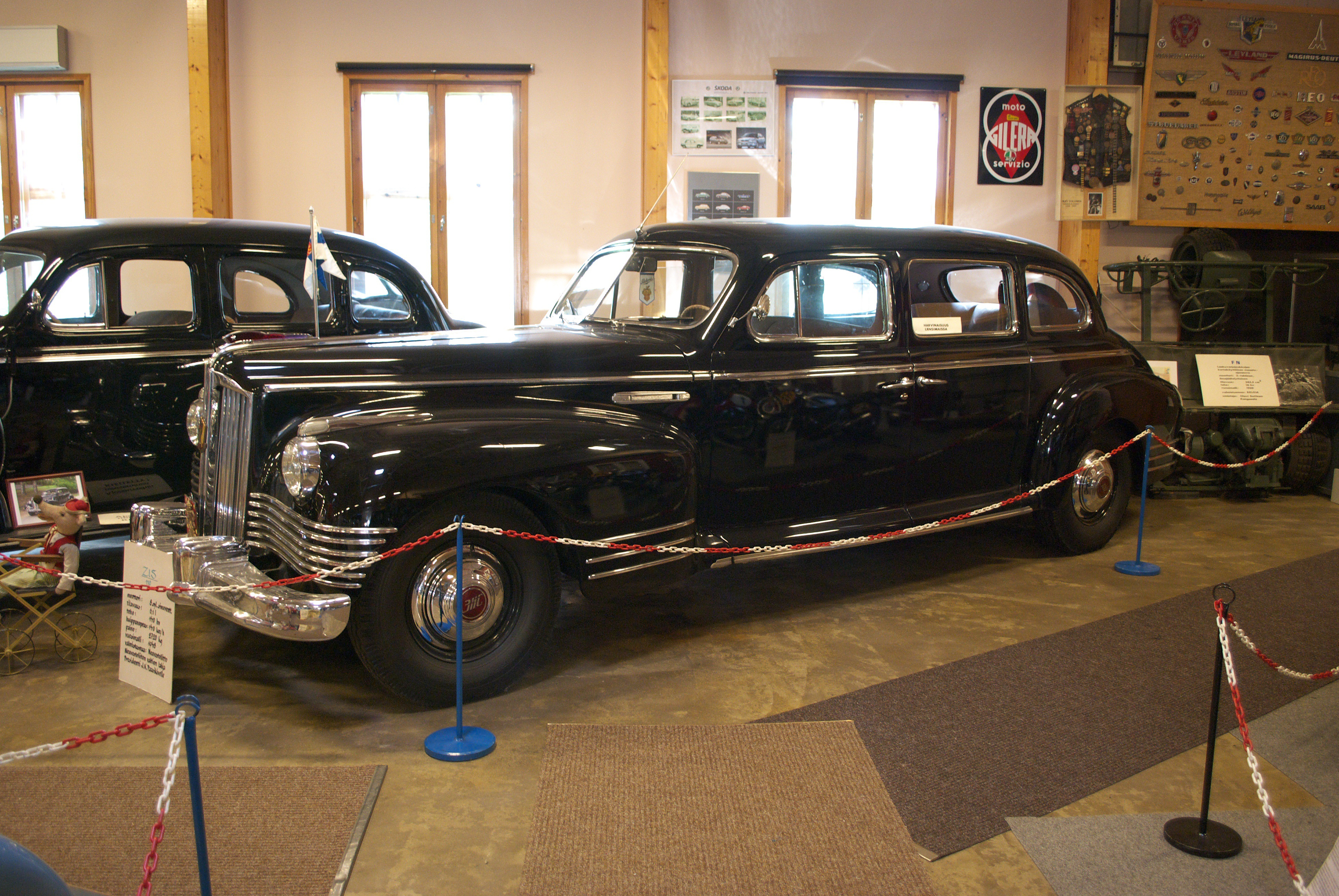 ZIS 110 at Vehoniemi automobile museum